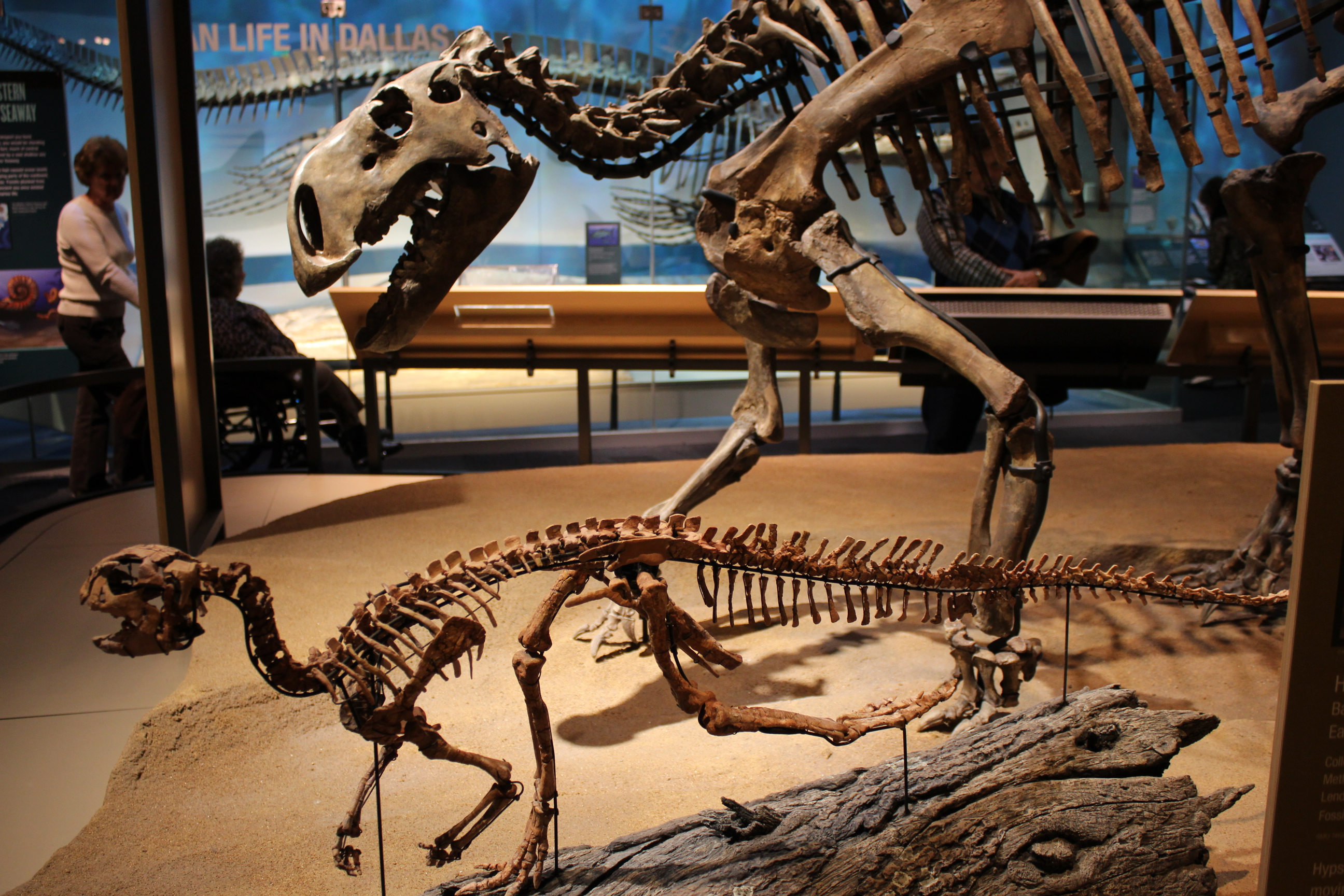 Perot Museum Reconstructed skeleton of Convolosaurus in the foreground, with an adult Tenontosaurus behind it. Skeletons are from the Cloverly Formation of Montana.